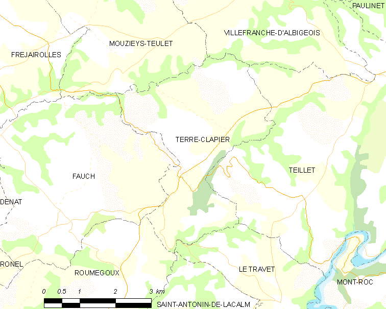 Map of French municipality Terre-Clapier